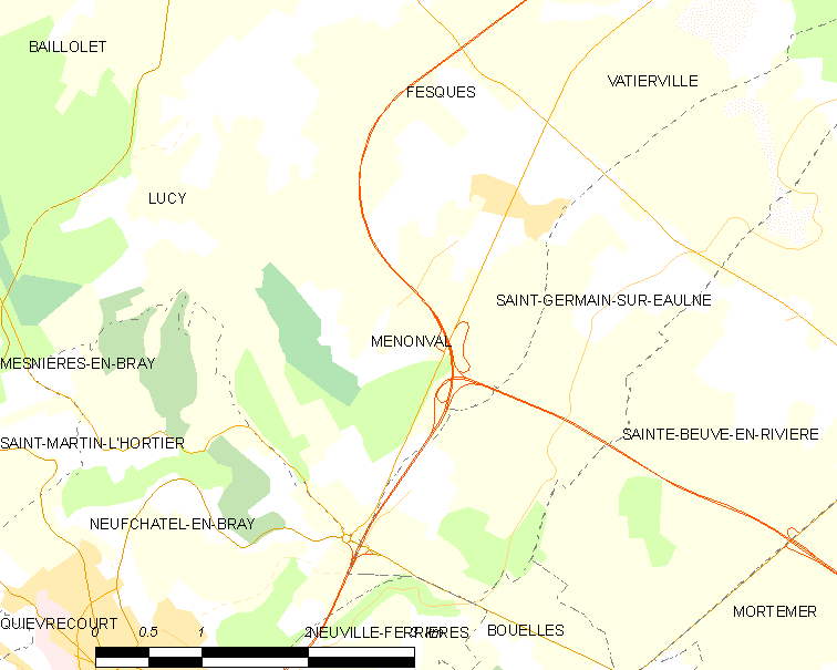 Map of French municipality Ménonval